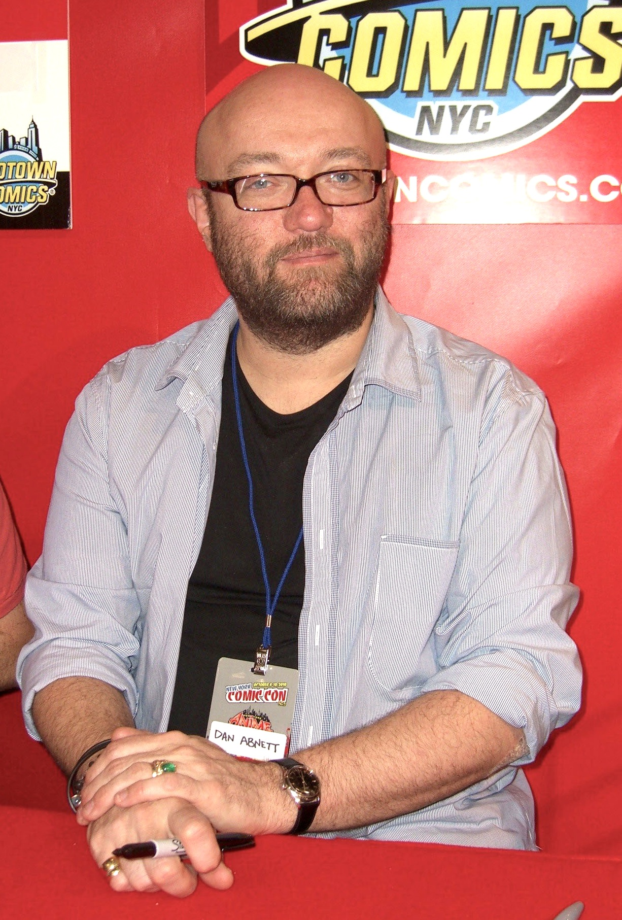 Comic book creator Dan Abnett, at the New York Comic Convention in Manhattan, October 10, 2010. Photo by Luigi Novi. This photo may be used, modified and published for any purpose, only if a easily visible credit to the photographer is placed near the photo in each instance in which it is used. (See licensing information below.) Publication of this photo without this proper attribution constitute copyright infringement. For more information on my photos, you can contact me here.